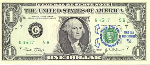 Where's George bill